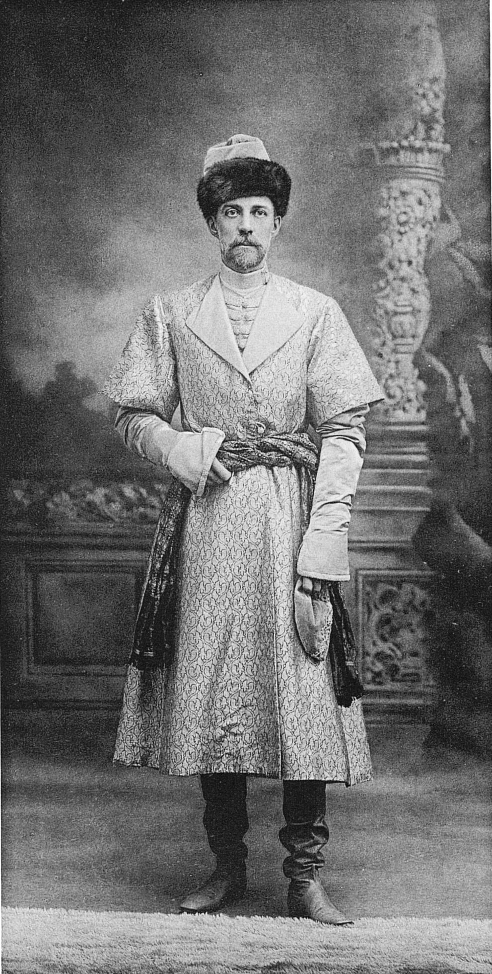 Shuvalov, Graf Pavel Petrovich (1859).